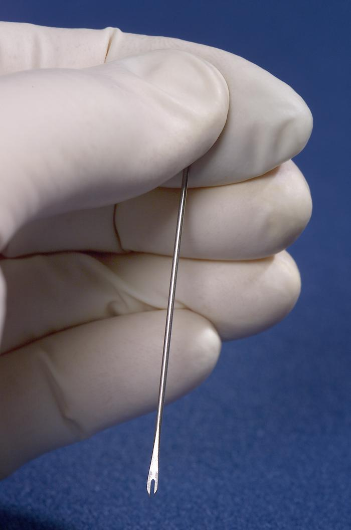 The tip of a hand-held bifurcated needle used to vaccinate individuals with the smallpox vaccine.